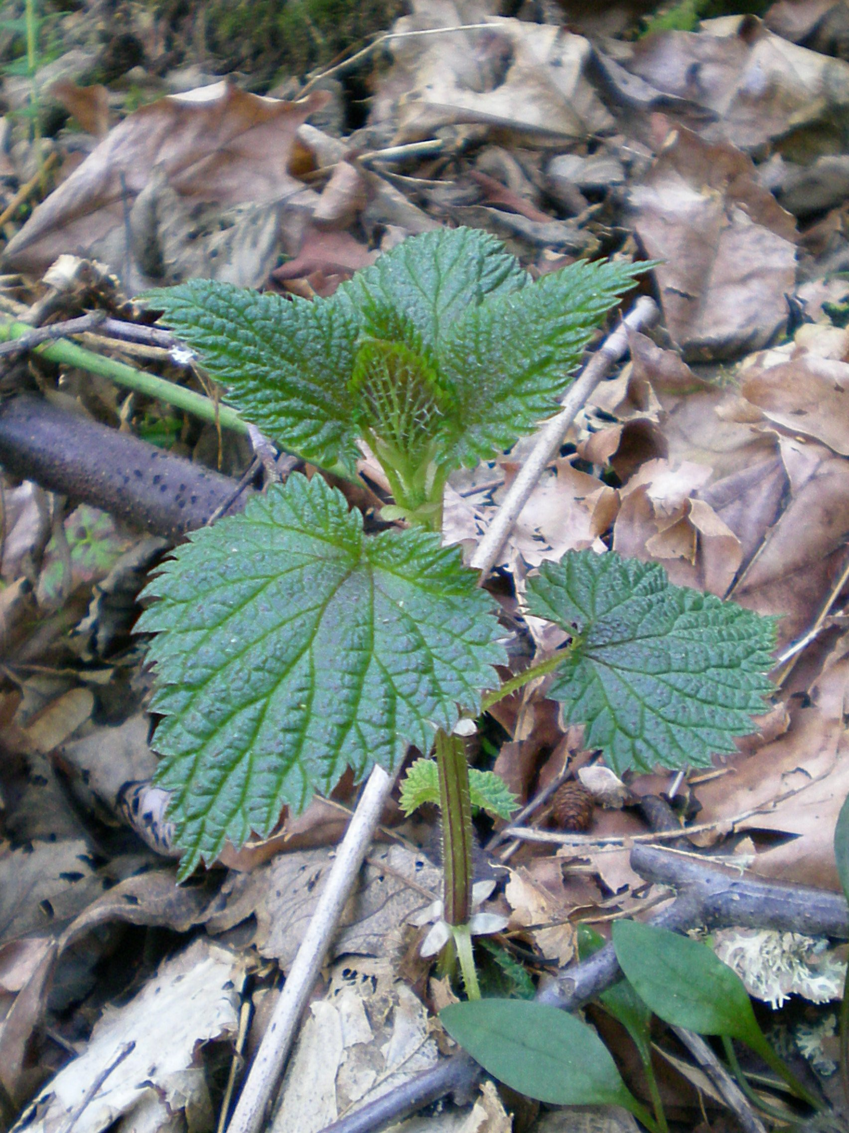 Urtica dioica subsp. gracilis, American Stinging nettle